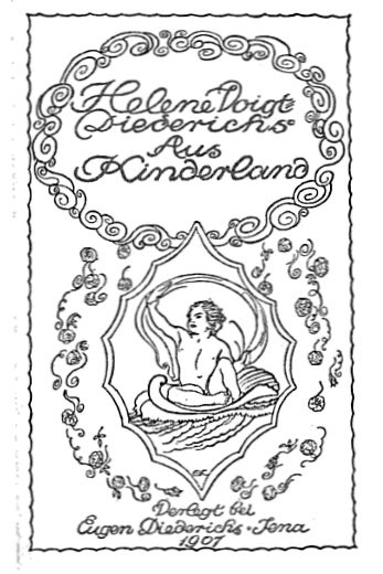 iook Illustration by E. Kuithan